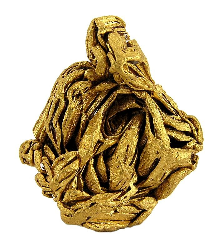 Gold Locality: Alta Floresta Gold Province, Mato Grosso, Central-West Region, Brazil (Locality at ) A superb example of this now-infamous find, from perhaps 3 years ago. This specimen went directly to the Ed David collection at the time. I recently purchased that collection. It is a superior example and perhaps the best of the thumbnail sized examples from this find. Complete all around! 2.6 x 2.2 x 1.4 cm